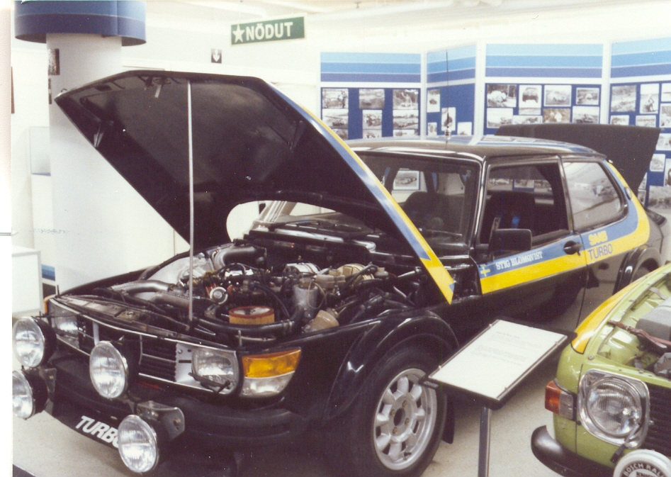 Stig Blomqvists's rally SAAB 99 Turbo (del) (cur) 21:06, 17 April 2006 . . Ballista (Talk) . . 947x673 (364155 bytes) (my own photo)